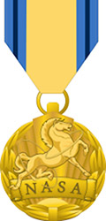 Graphical representation of the NASA Early Career Achievement Medal (ECAM)